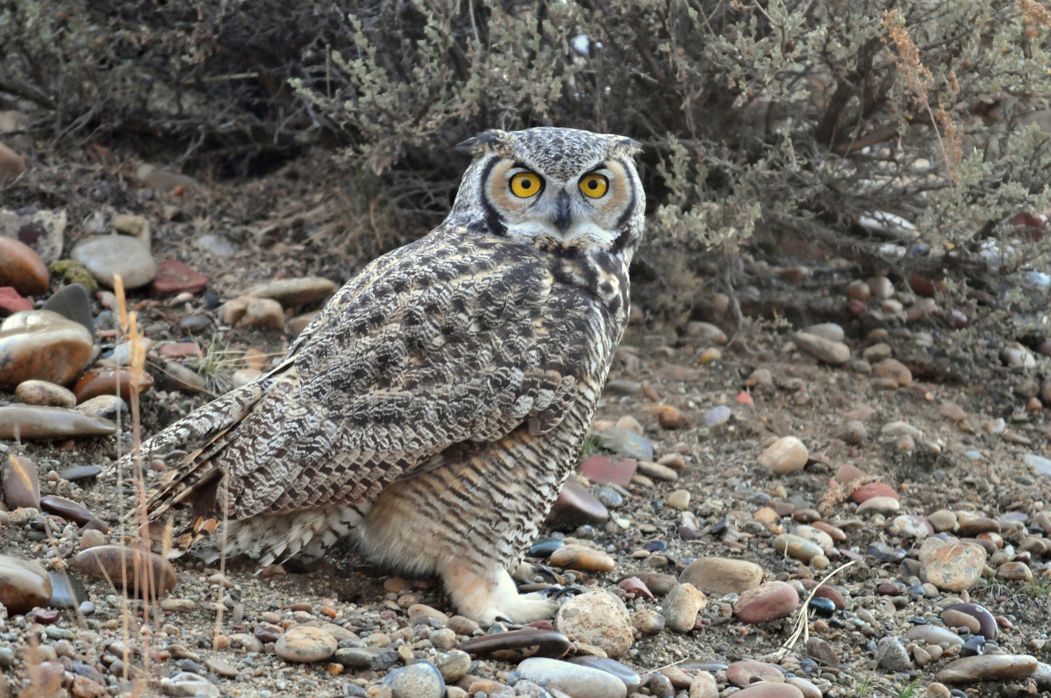 A great horned owl is perched on the transition from sage steppe to riparian habitats at Seedskadee NWR. Great horned owls are common in the river valley and their calls can be heard up and down the river on calm nights. They are a significant predator on Seedskadee NWR and there are very few things they will not eat. Great horned owls have the most diverse diet of all North American raptors. They eat mostly mammals and birds at Seedskadee NWR , especially cottontail rabbits, white-tailed jackrabbits, meadow voles, mice, and American Coots. They also kill and eat many other species including least chipmunks, white-tailed prairie dogs, bats, feral house cats, ducks, mergansers, grebes, rails, other owls, hawks, crows, ravens, doves, and starlings. They are one of the few to kill porcupines and striped skunks. They supplement their diet with reptiles, insects, fish, invertebrates, and sometimes carrion. They are primarily nocturnal hunters and use their excellent hearing and night vision to locate prey. They will occassionally hunt in broad daylight, but run the risk of other raptors harrassing them severely. We have spotted both prairie falcons and Northern harriers taking turns driving great horned owls out of their territory. Photo: Tom Koerner/USFWS